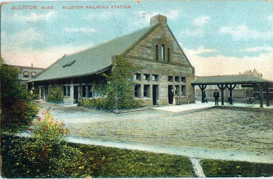 Postcard of Allston Depot in Allston section of Boston, Massachusetts with 1909 postmark Caption: "ALLSTON, MASS. ALLSTON RAILROAD STATION." Postmarked October 6, 1909 in New Bedford, Mass.